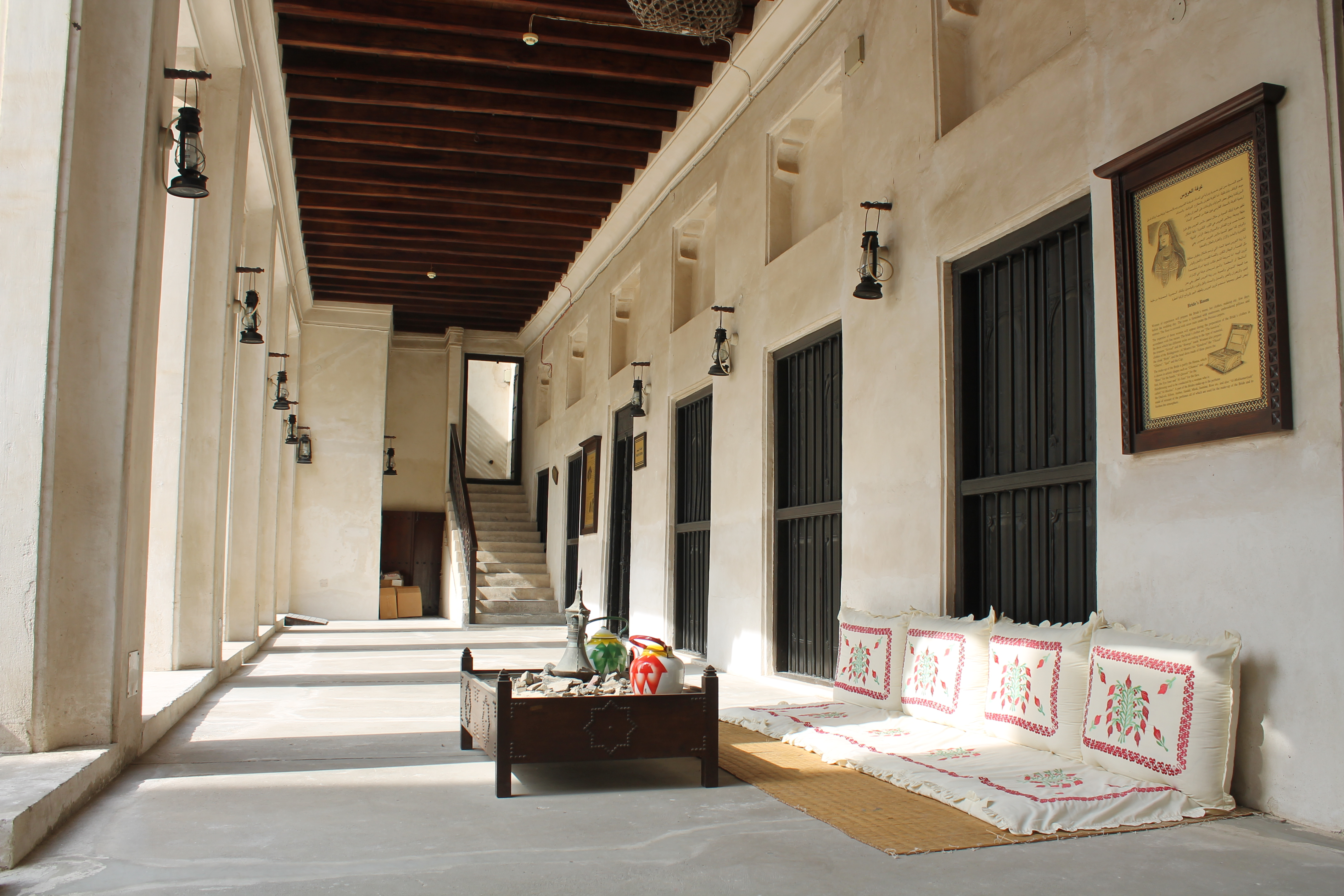 An interesting corner with look of traditional way of living at the Heritage House, Dubai